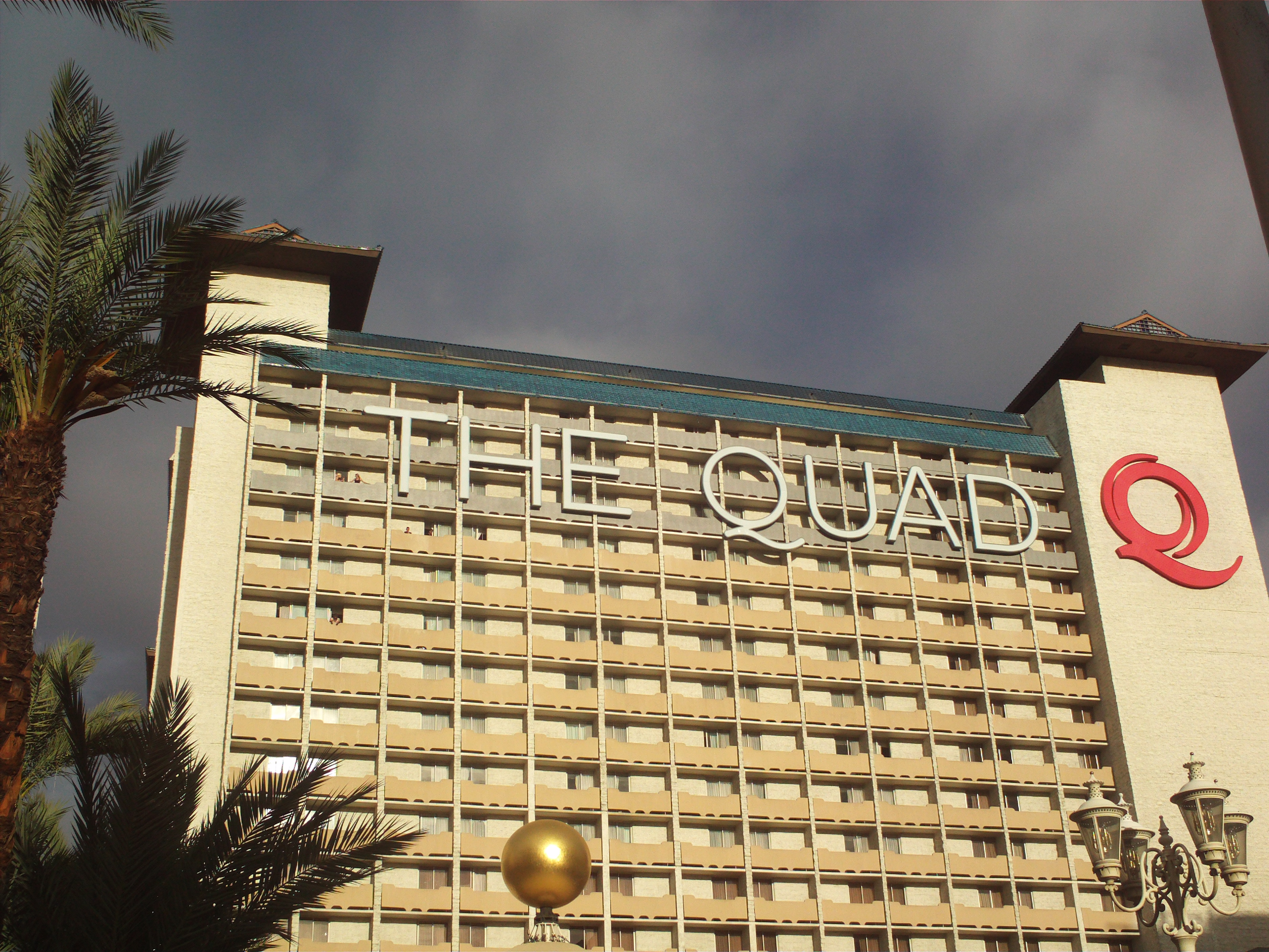 The Quad resort & casino in Las Vegas. Until 2012 known as Imperial Palace.